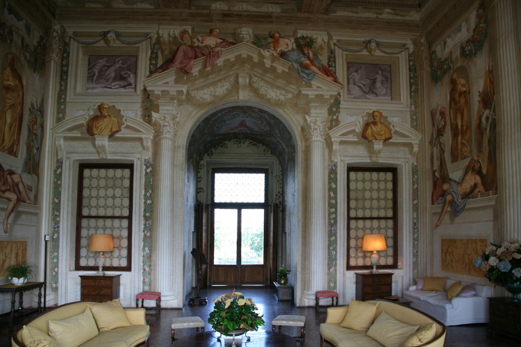 Villa Emo. The south wall of the hall. The entrance to the room is through a triumphal arc. The seated figures are Abundance and Prudence. Frescoes by Giovanni Battista Zelotti.